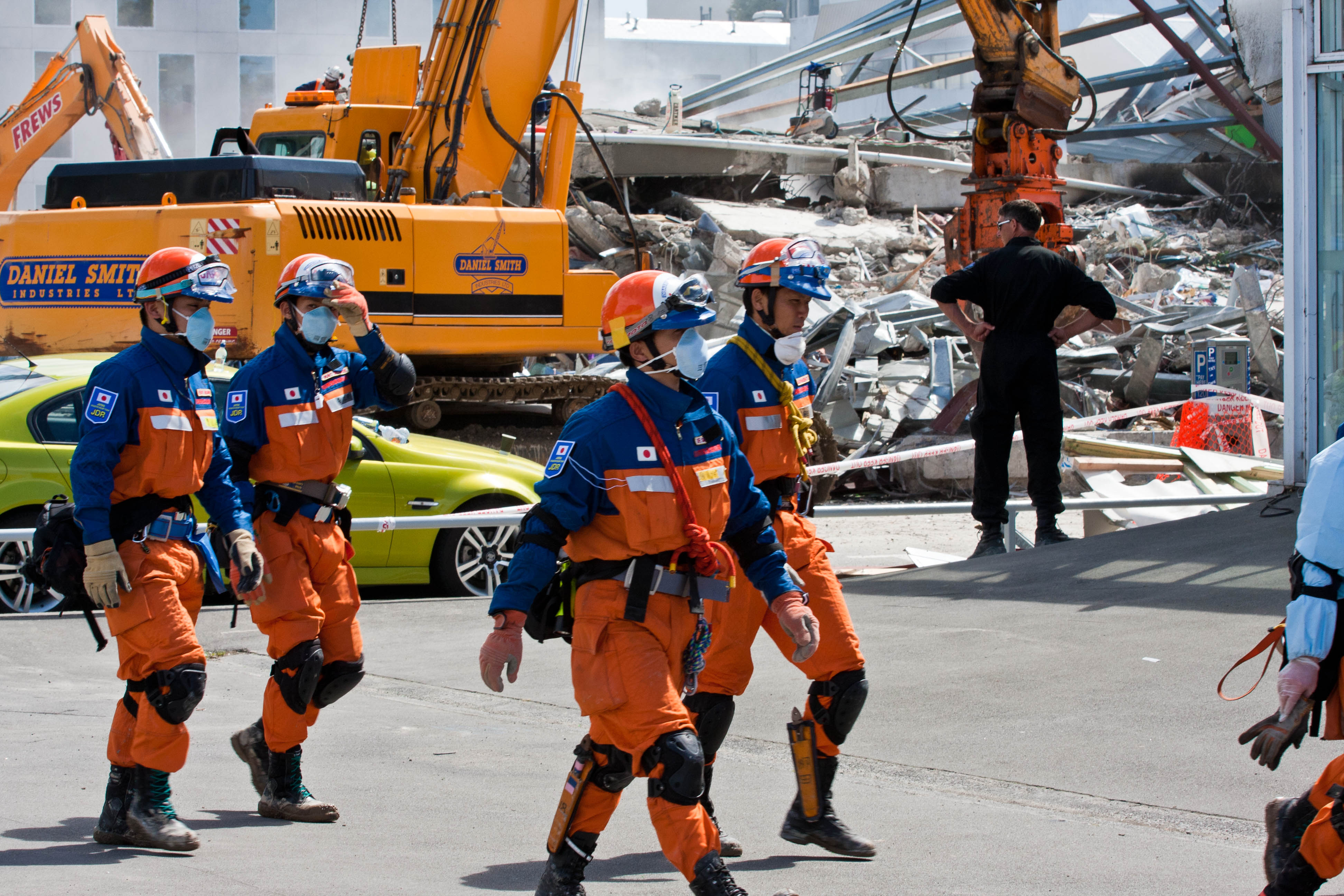 A Japanese urban search and rescue team at the ruins of the CTV building, Christchurch, 24 February 2011.